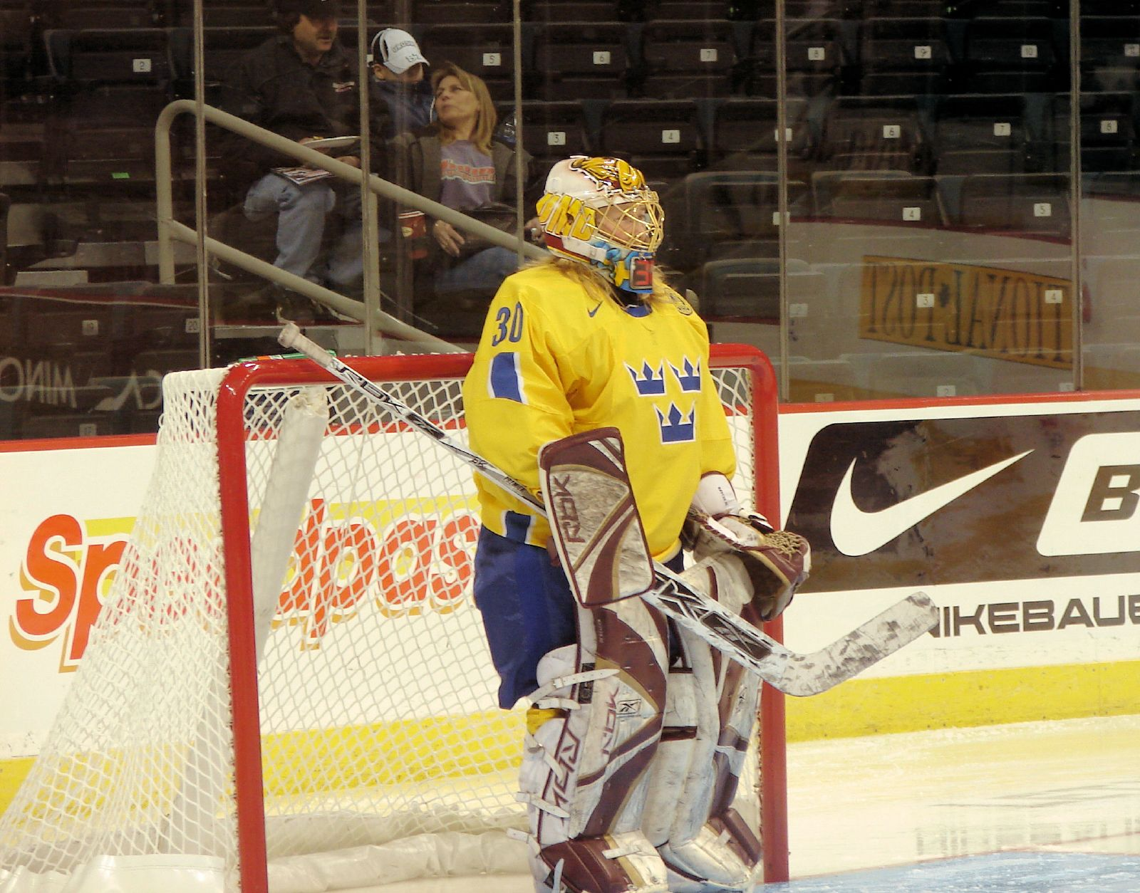 Swedish goaltender Kim Martin at the 2007 IIHF Women's World Championships.